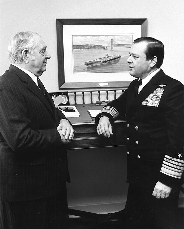 Admiral James L. Holloway, USN, Chief of Naval Operations (at right) with his father, Admiral James L. Holloway, USN (Retired), in 1974. They were the only U.S. Navy father and son to have both attained four-star rank while on active duty. Donation of Admiral James L. Holloway, III (Retired), 2006.